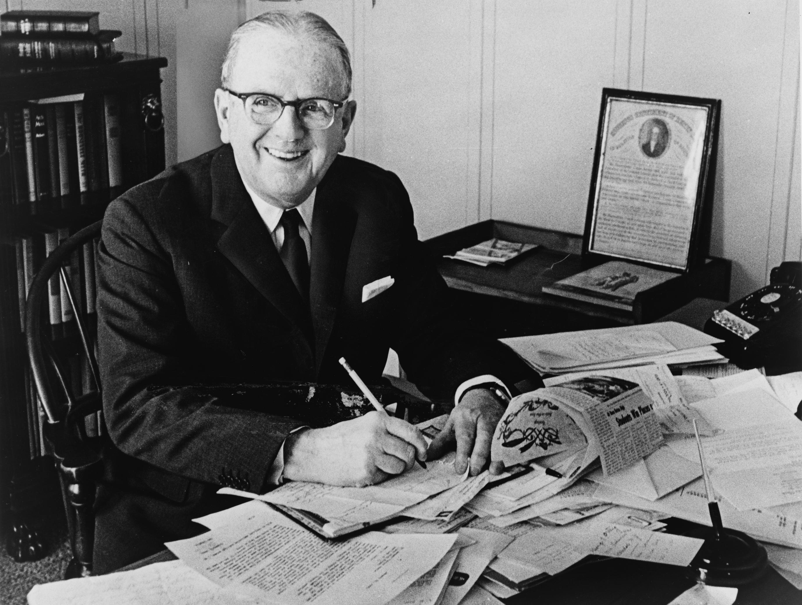 Norman Vincent Peale ( May 31, 1898 – December 24, 1993) was a Christian preacher and author (most notably of The Power of Positive Thinking) and a progenitor of the theory of "positive thinking".